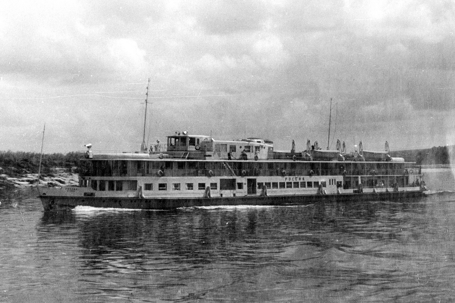 Rossiya on the Volga River nearby Atlashkino Tatarskaya ASSR August 1953